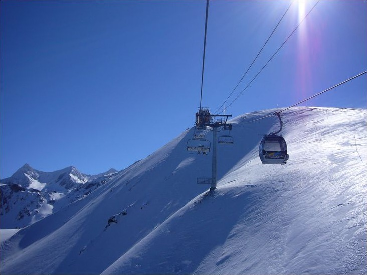 Combi Grand Cerf (les Sept-Laux, France)